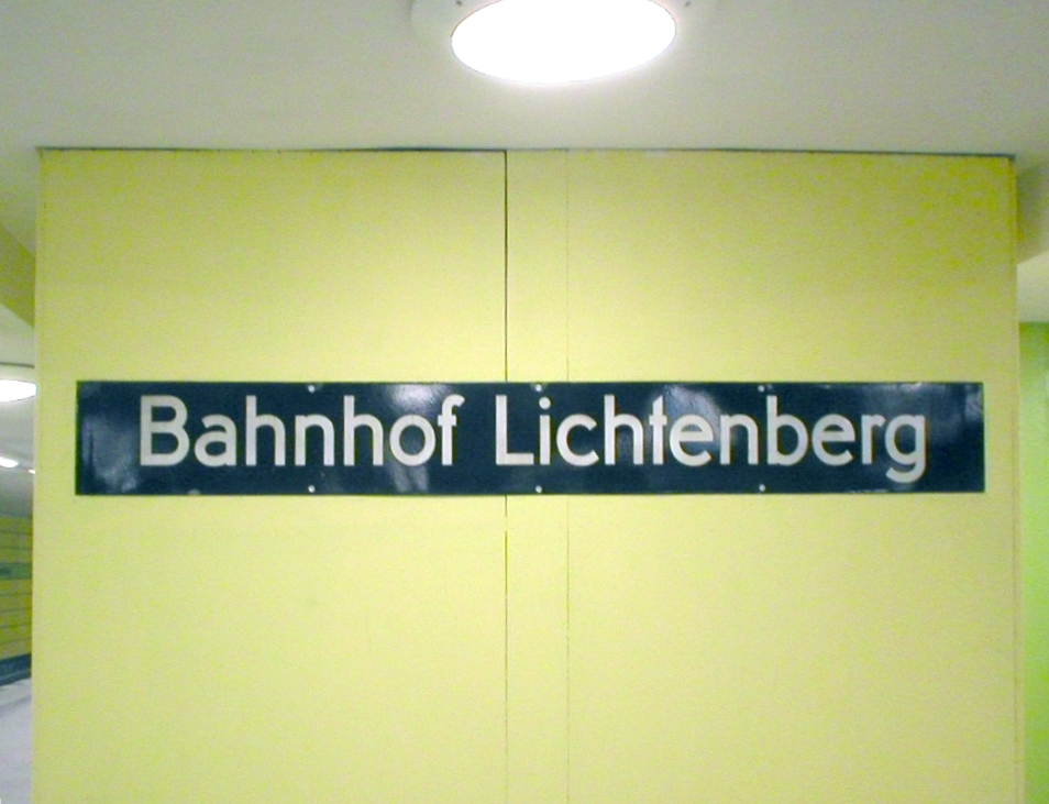 Old train station at Lichtenberg U-Bahn station, Berlin